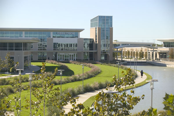 View of Cy-Fair College